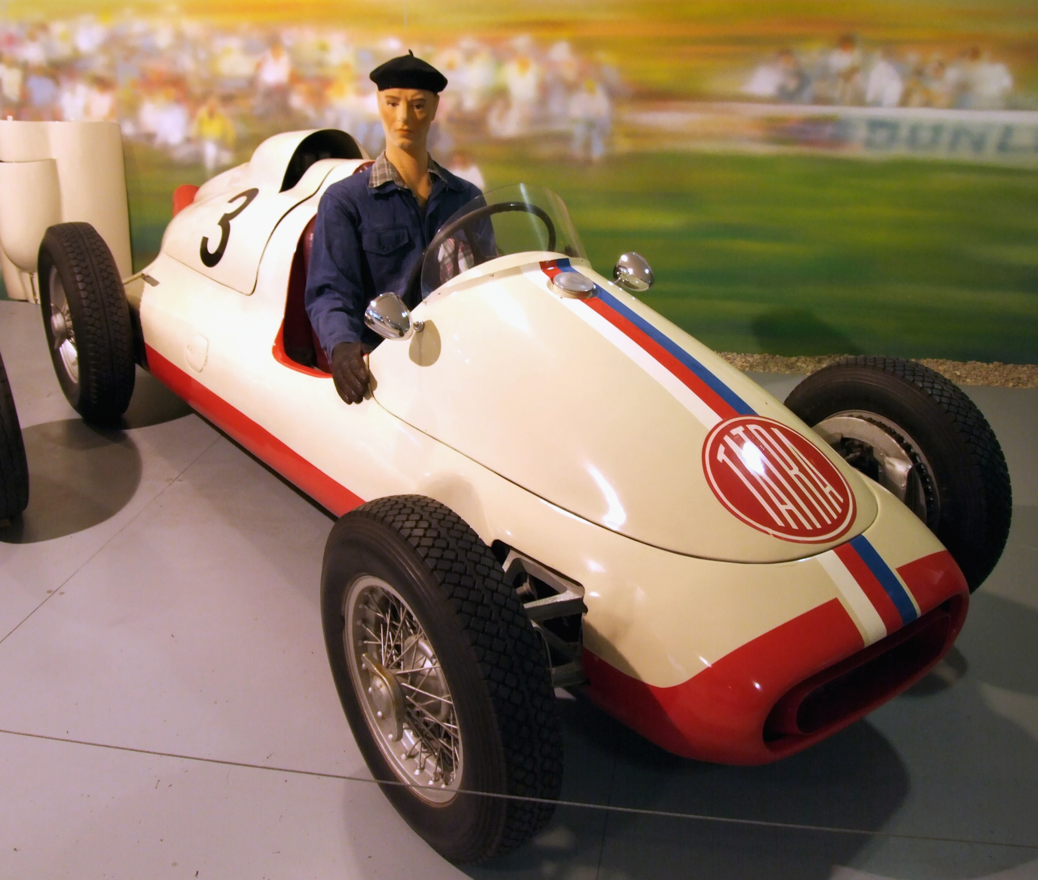 Tatra 607-2 Monopost in Kopřivnice